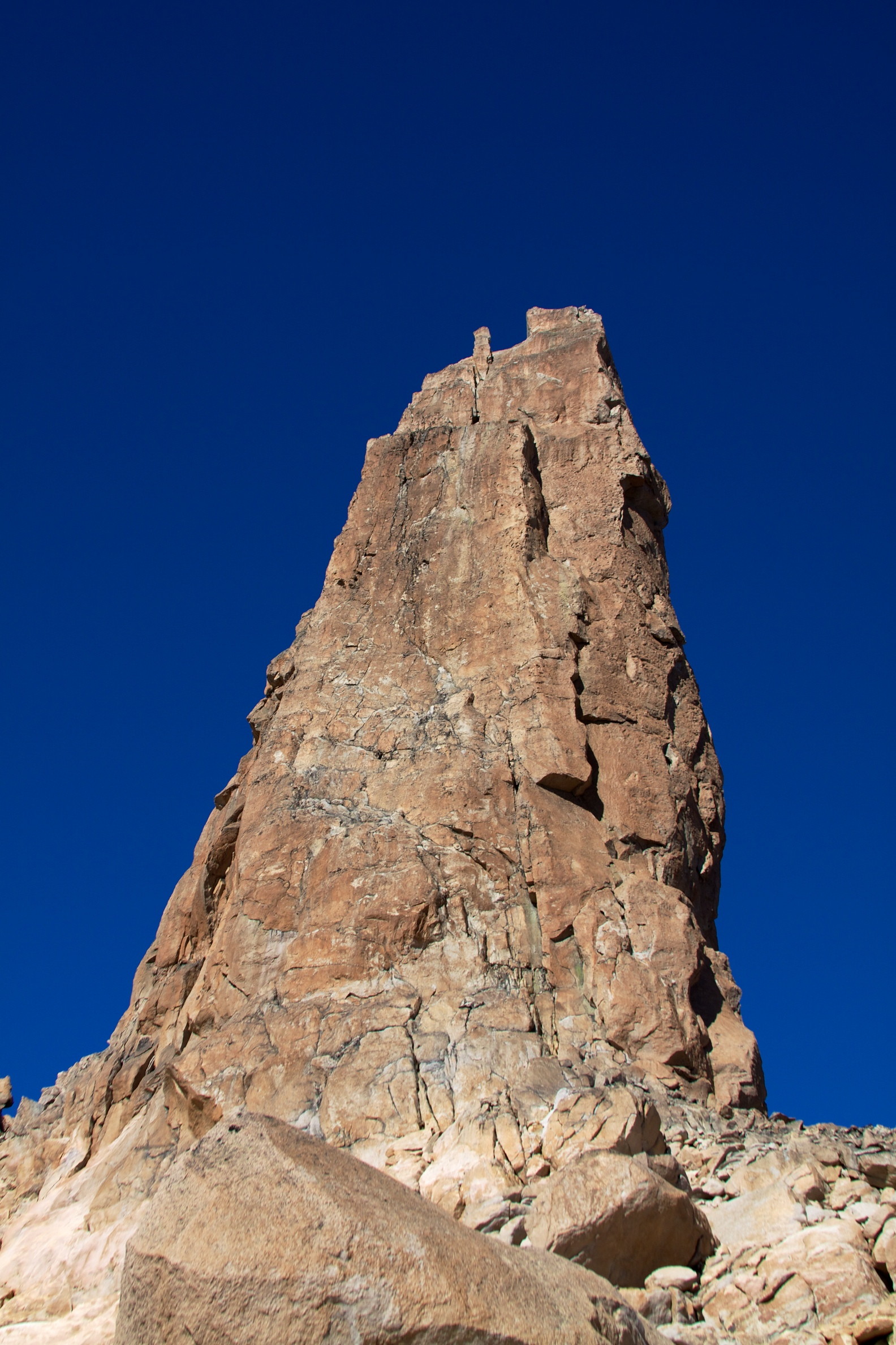 Our day's climbing quest, 120m spire Campanile Esloveno, standing out alone on the ridgeline.